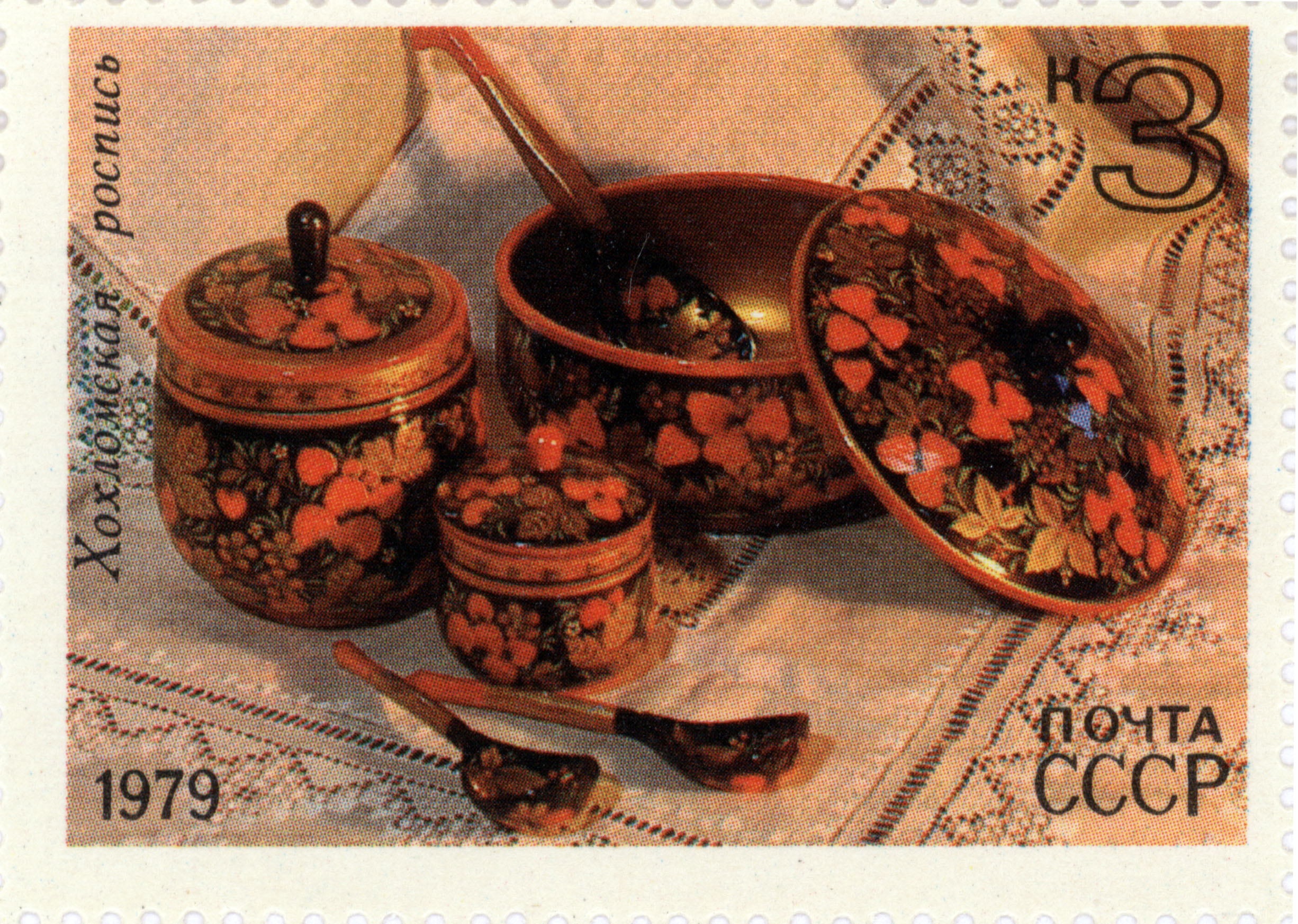 A USSR stamp depicting traditional Russian Khokhloma wood painting